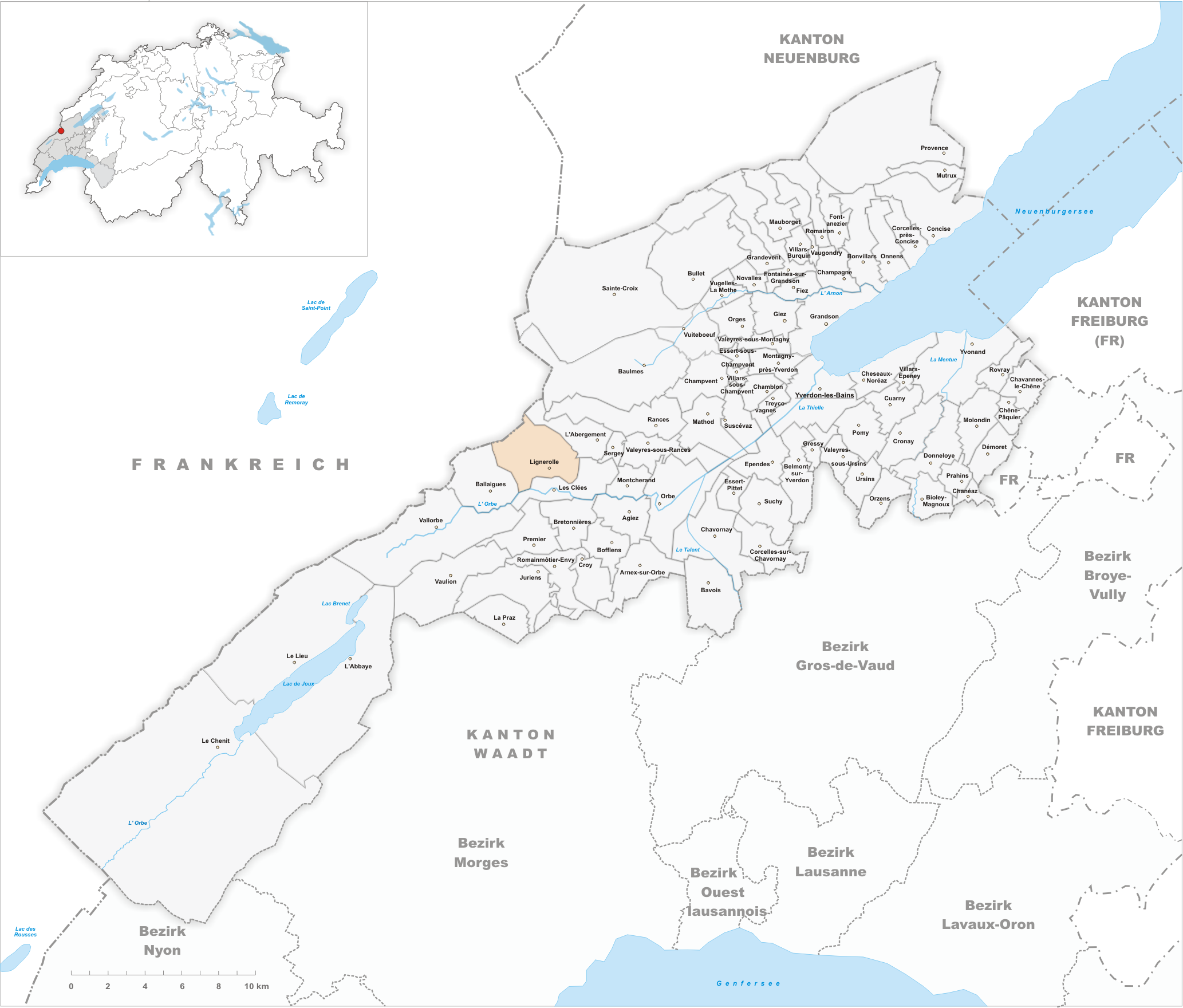 Municipality Lignerolle